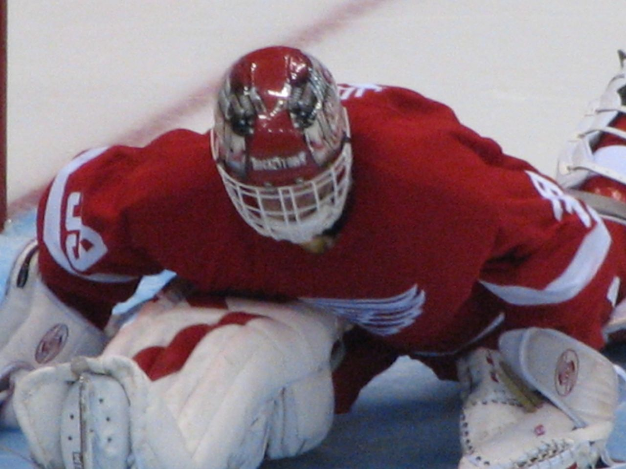 Photo of Dominik Hasek of the Detroit Red Wings